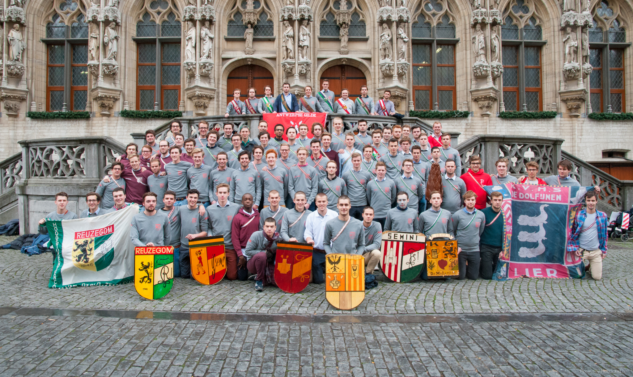 Antwerpse Gilde 2015 - 2016